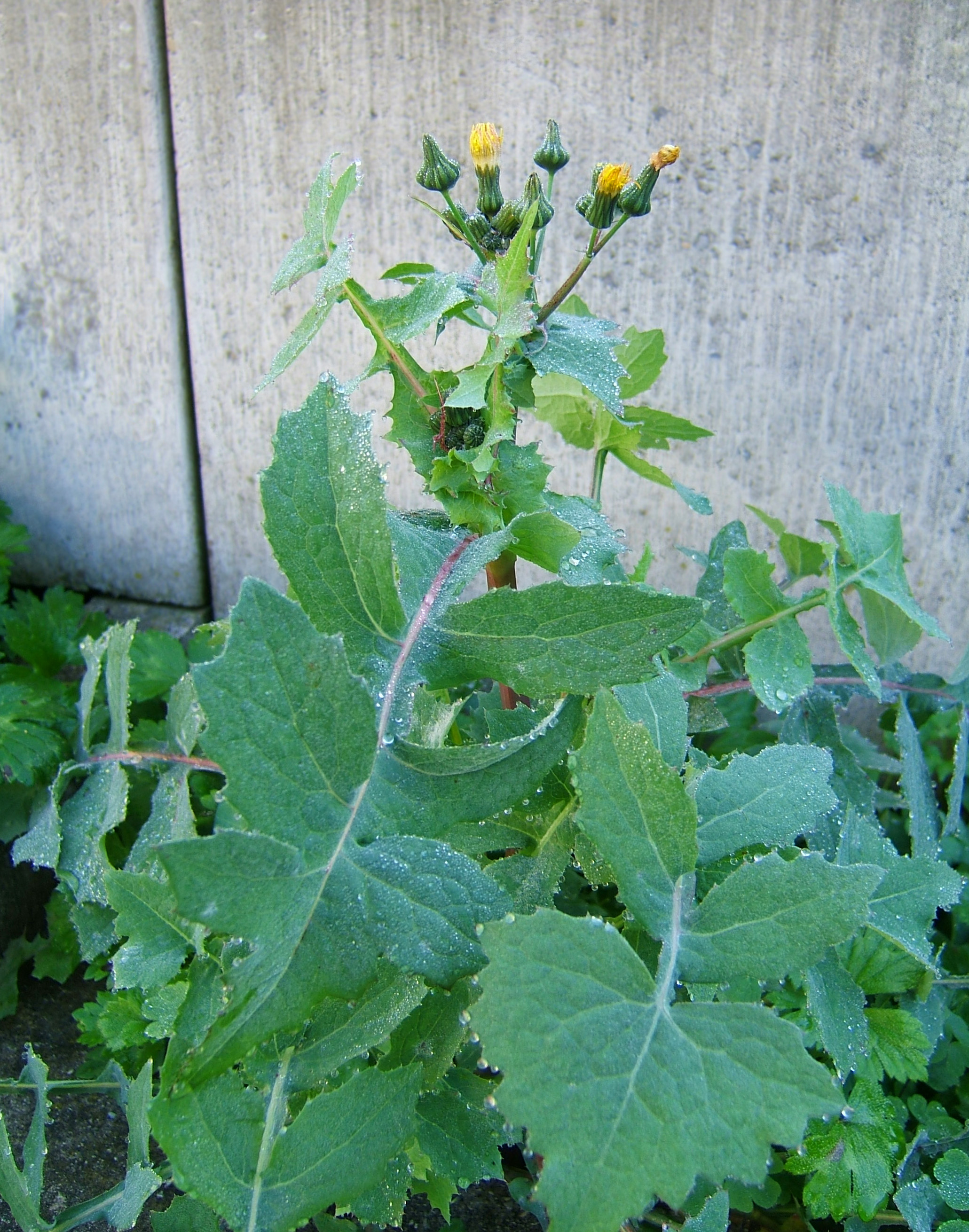 common sow thistle